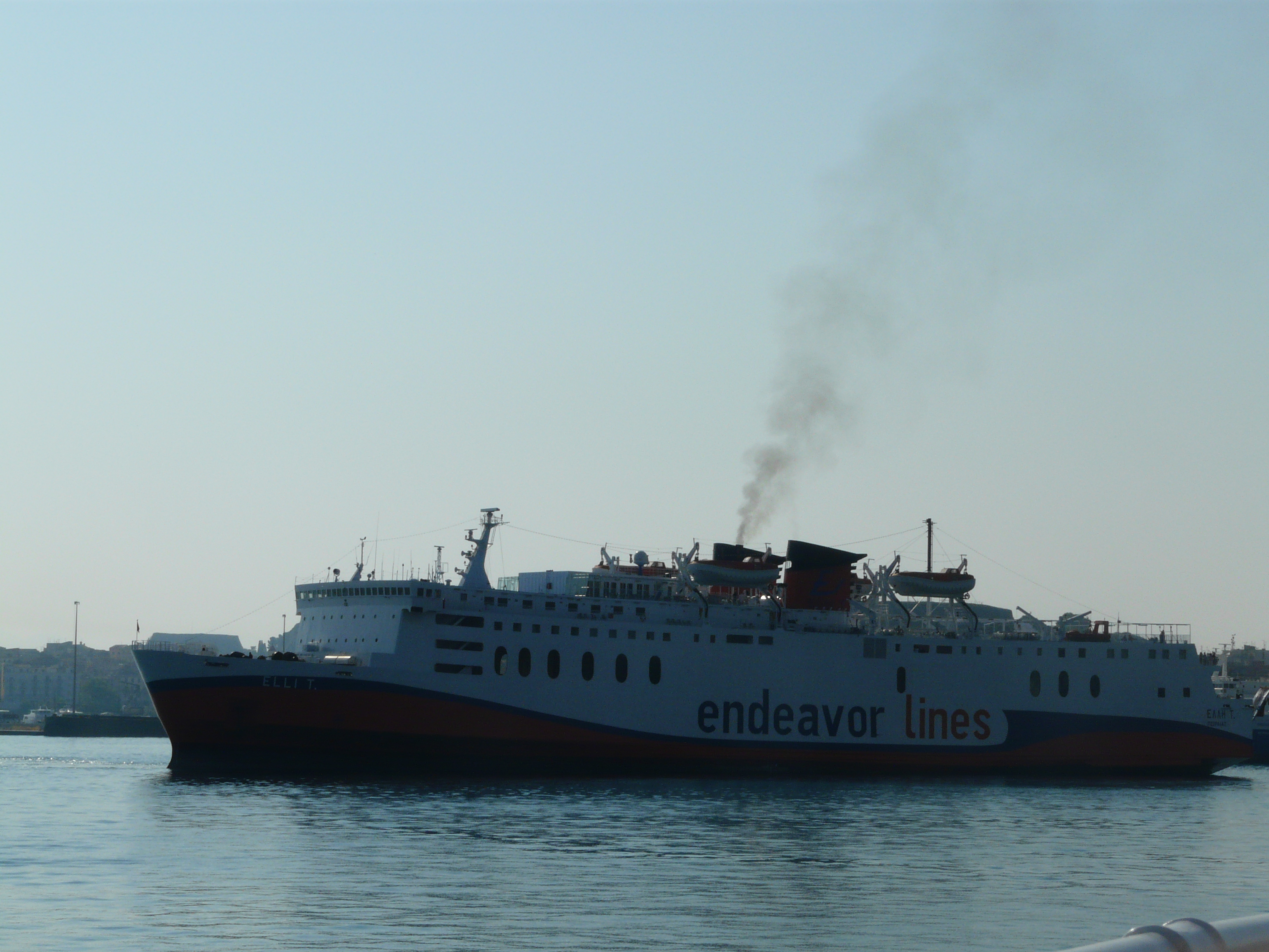 Corfu-Albania trip. Possibly Corfu town